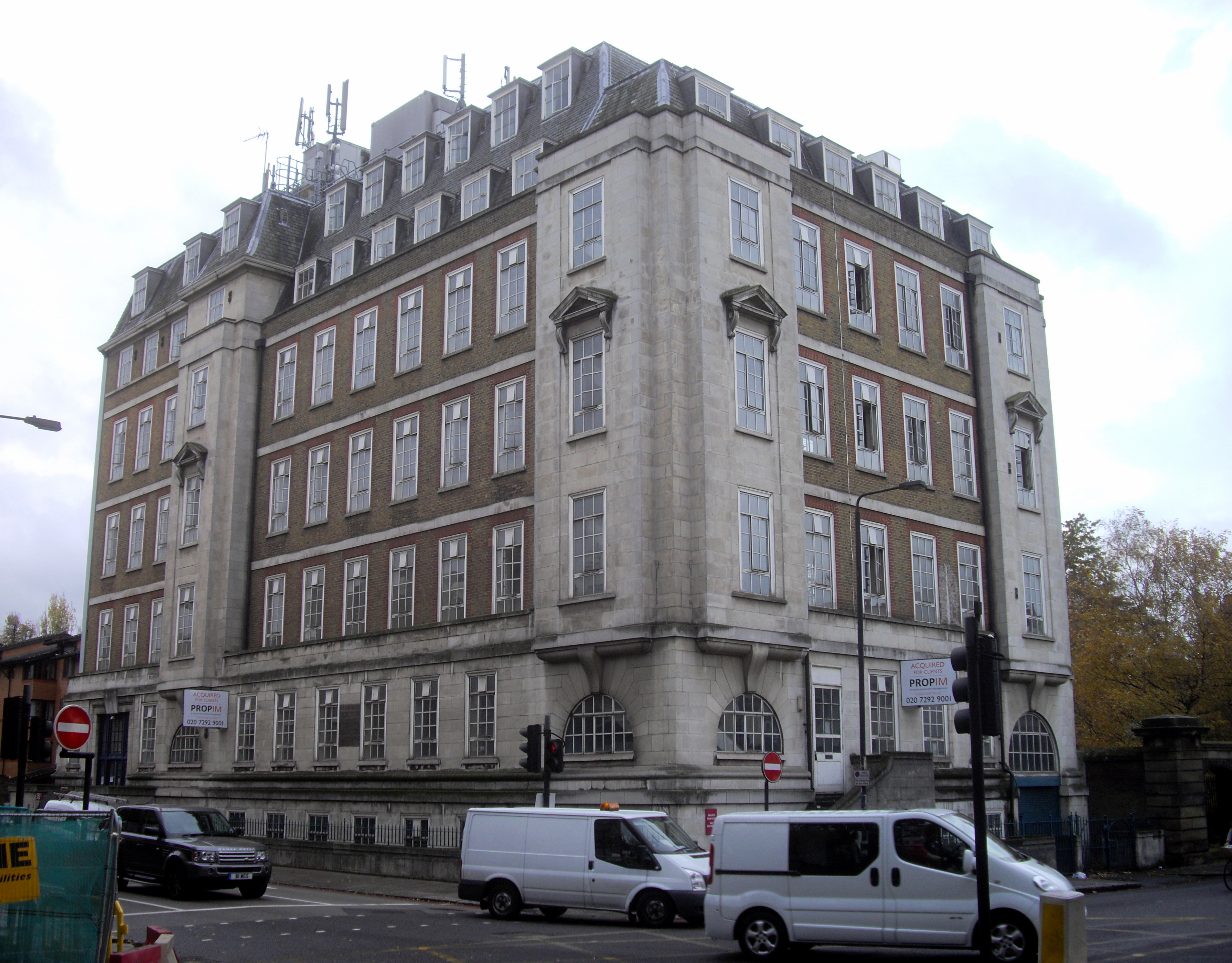 Former hostel: Princess Beatrice House, Earl's Court